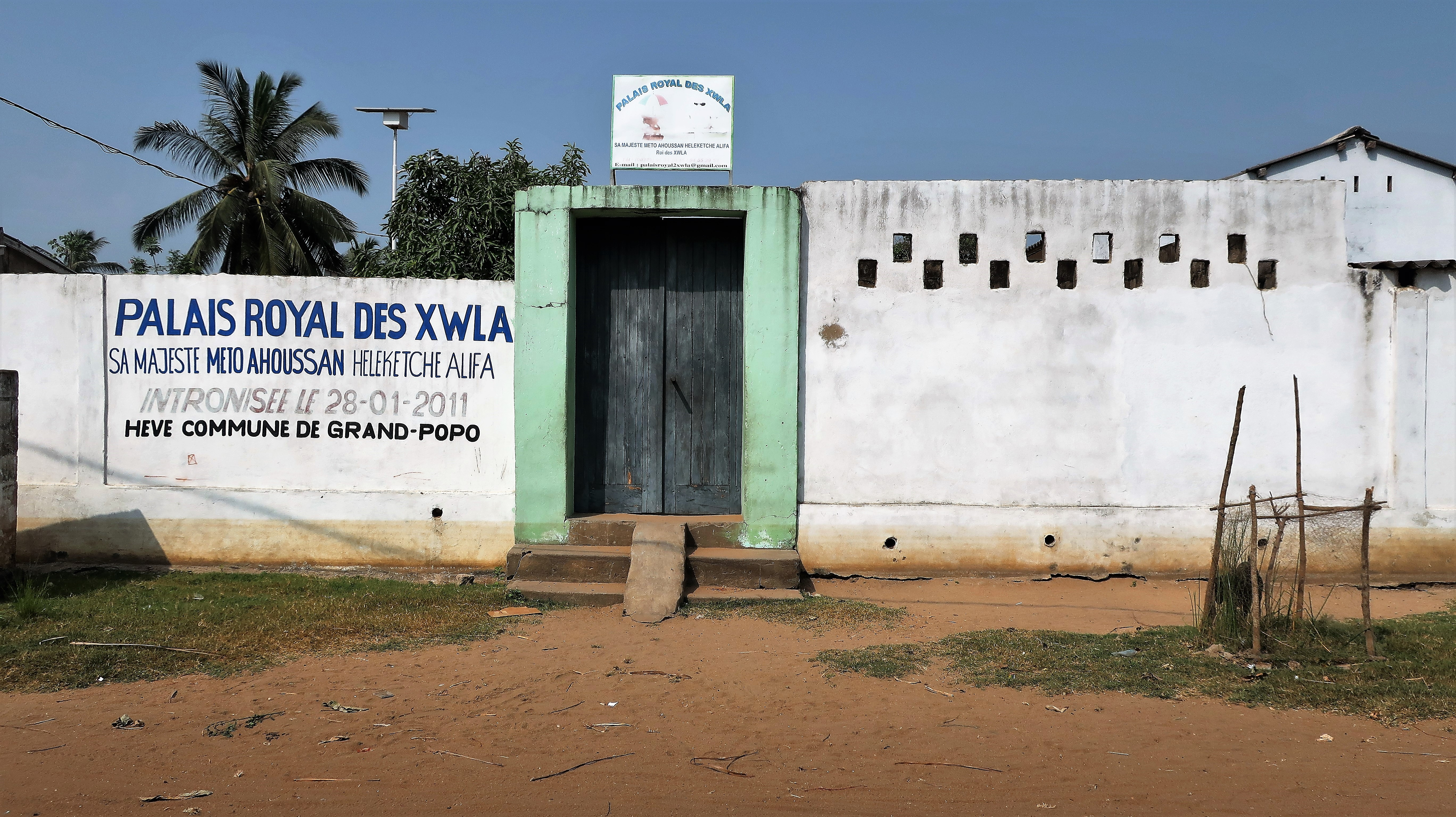 Closed door to the courtyard tells that the king is not in